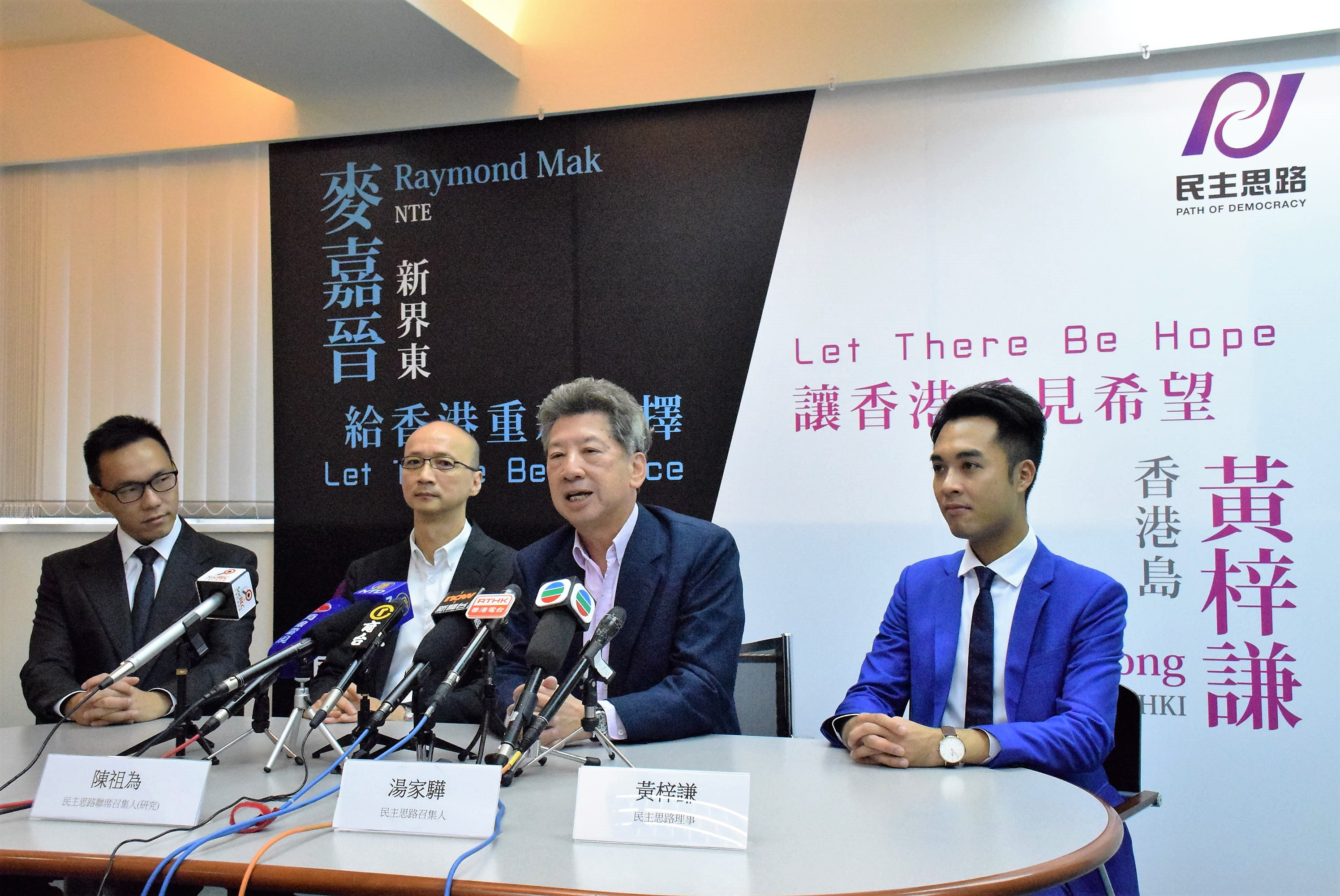 Path of Democracy in 2016 Legco election